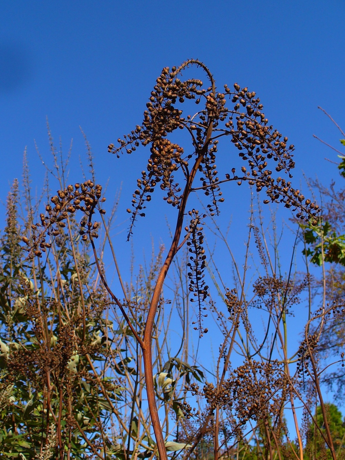 Actaea racemosa, Ranunculaceae, Black Cohosh, Black Bugbane or Black Snakeroot, Fairy Candle, fruits; Botanic Garden Universiy Tübingen, Germany.